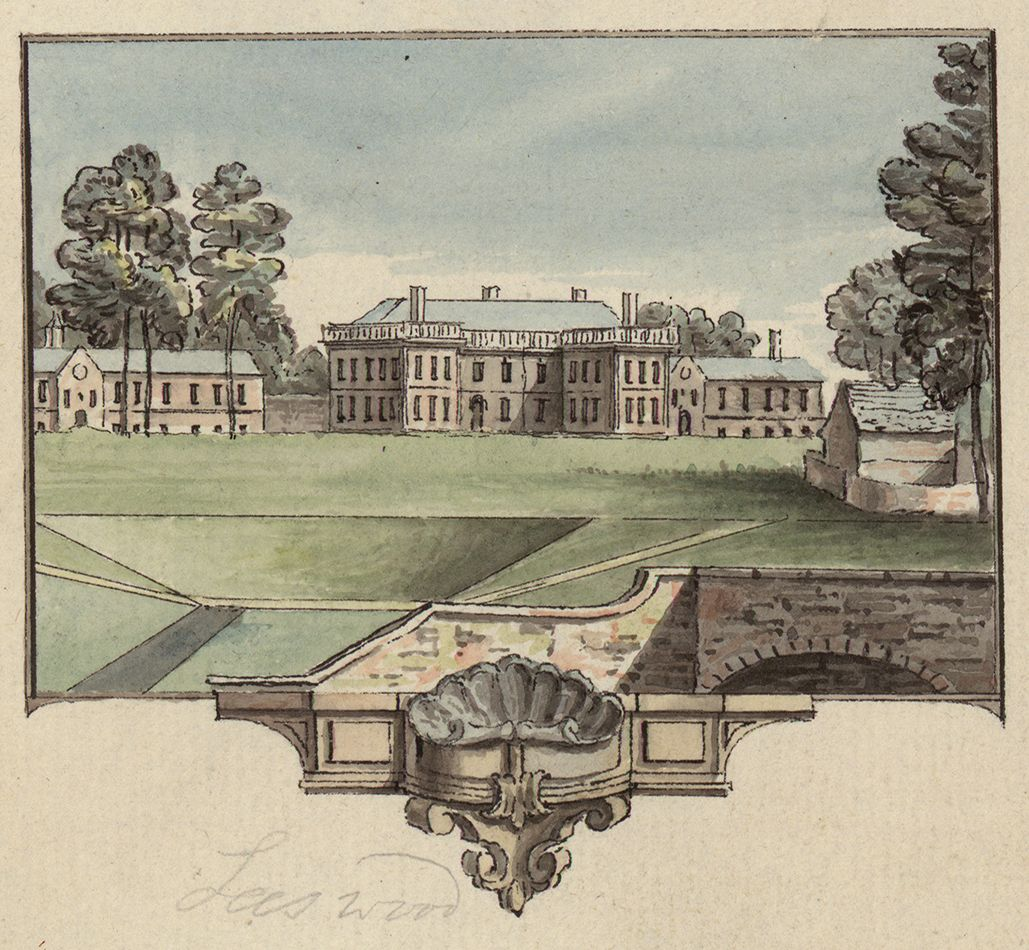 An image from a set of 8 extra-illustrated volumes of A tour in Wales by Thomas Pennant (1726-1798) that chronicle the three journeys he made through Wales between 1773 and 1776. These volumes are unique because they were compiled for Pennant's own library at Downing. This edition was produced in 1781. The volumes include a number of original drawings by Moses Griffiths, Ingleby and other well known artists of the period. Thomas Pennant (1726-1798)